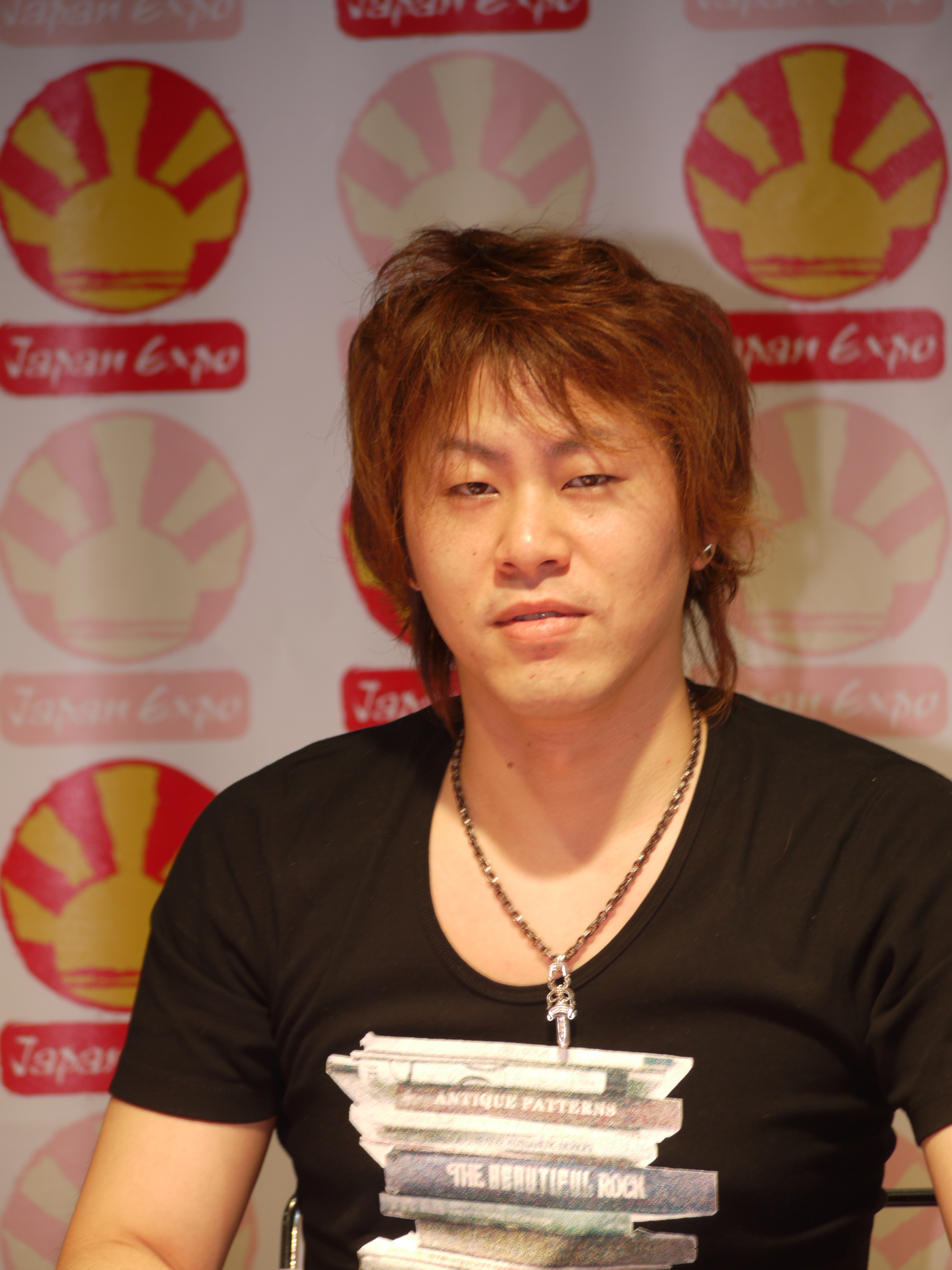 Japan Expo Festival, 11th impact